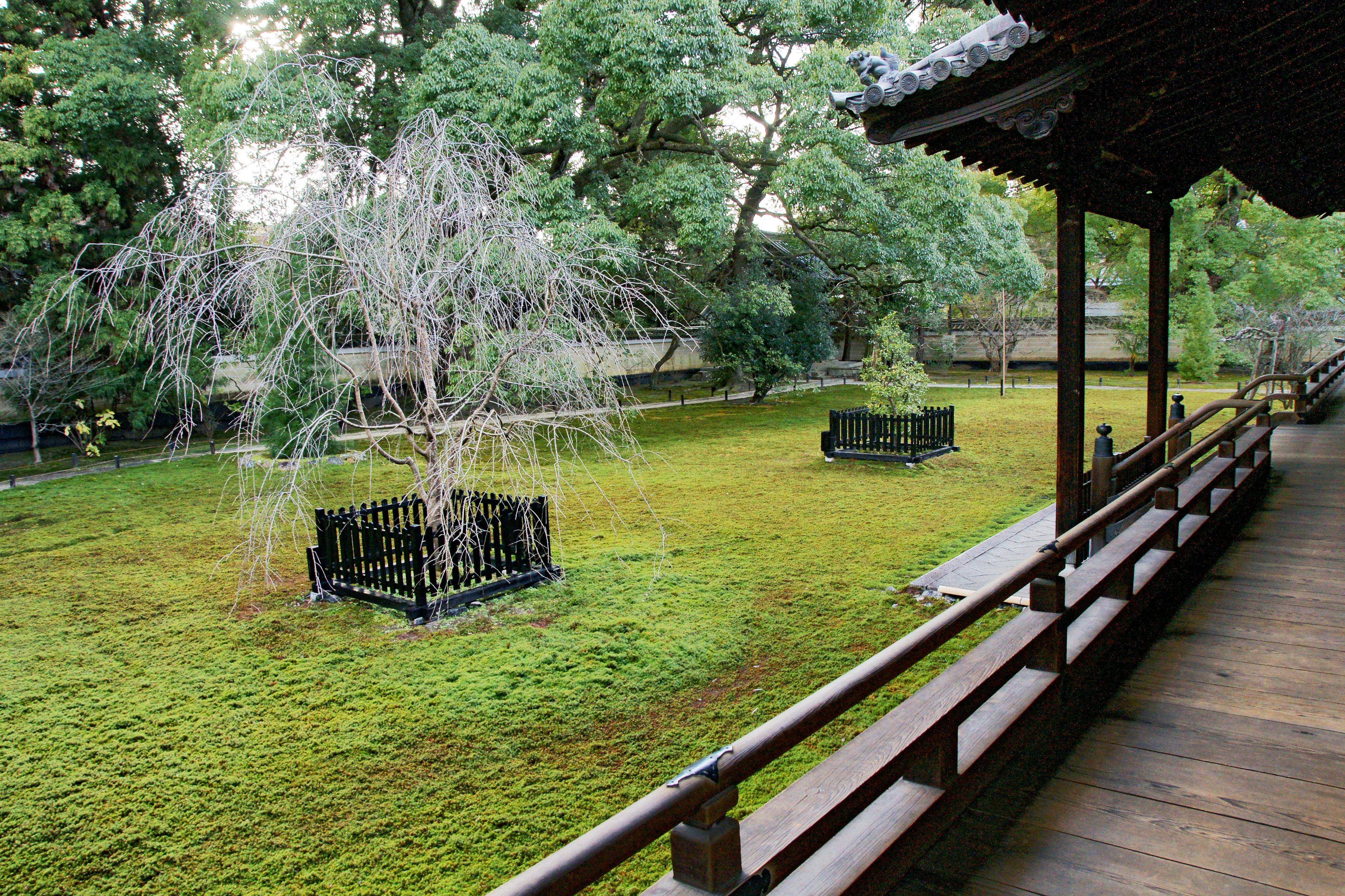 Shōren-in, Kyoto, Kyoto Prefecture, Japan